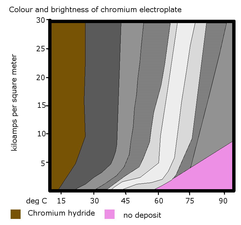 Chart of the effect of varying temperature and current density on chromium electroplate colour. The brightest white is the optimum form, pink is a region where nothing is plated, and brown and dark grey are actually chromium hydride.